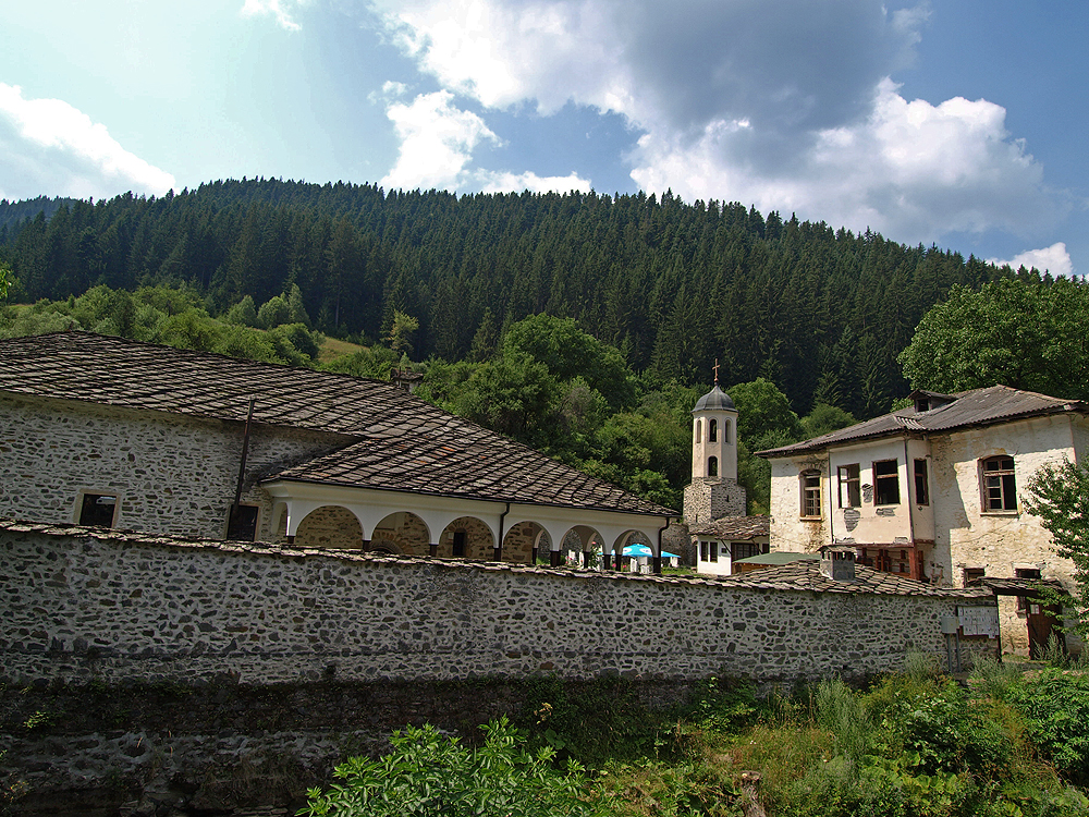 19 century St.Theotokos Church and St.Panteleimonas" School from Shiroka Laka, Bulgaria